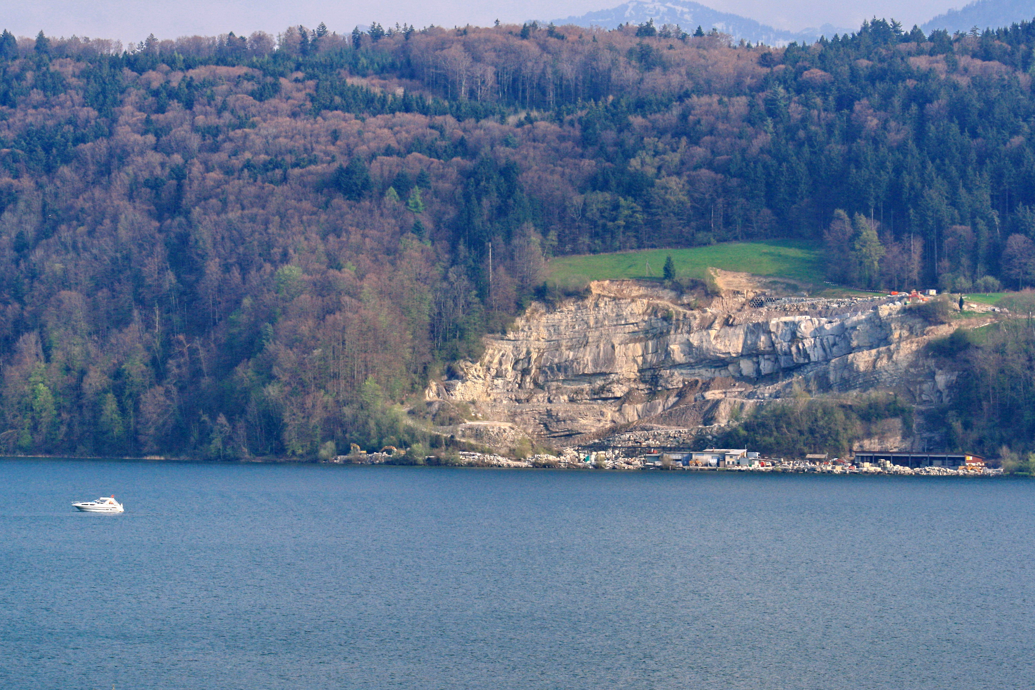 Buechberg respectively Bollinger Sandstein in a quarry on Obersee (upper Lake Zürich) shore